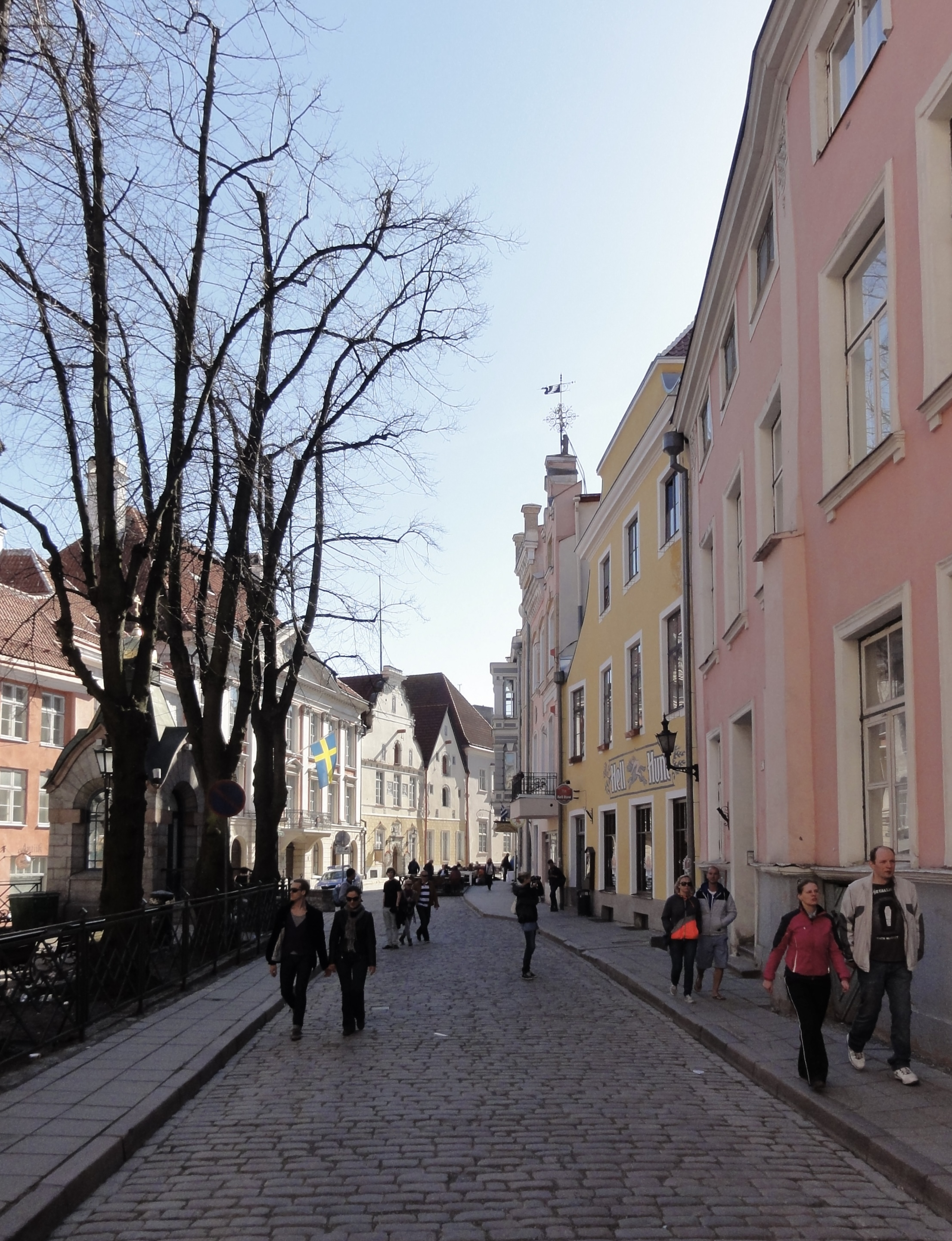 Tallinn, Estonia